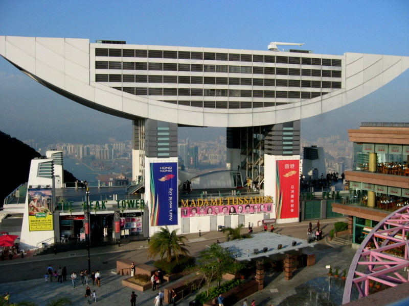 Author:WiNG@NTPHK Details:The Peak Tower before renovation